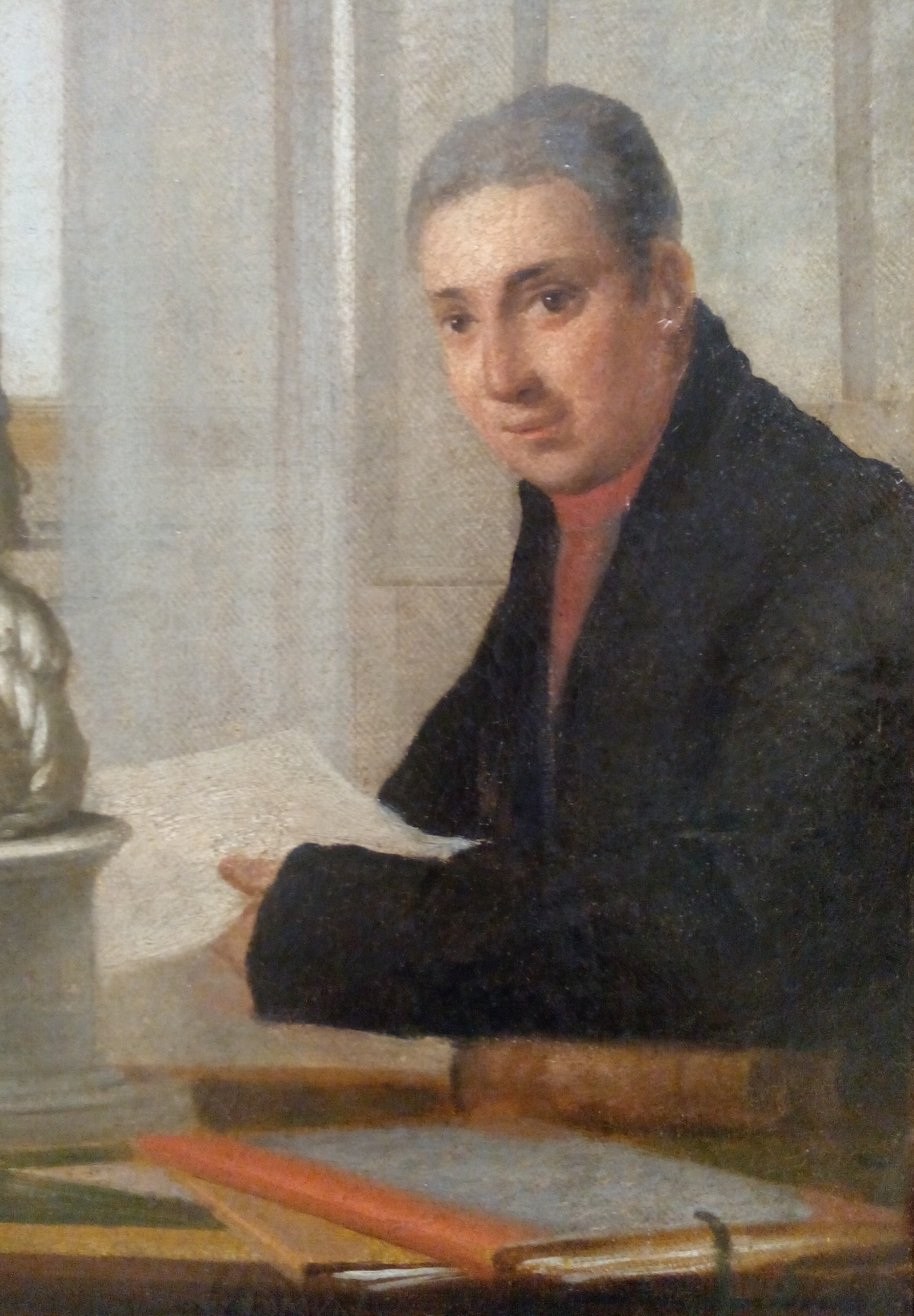 D. António Roberto de Barros Leitão e Carvalhosa, Archbishop of Hadrianopolis - detail of painting by Domingos Sequeira